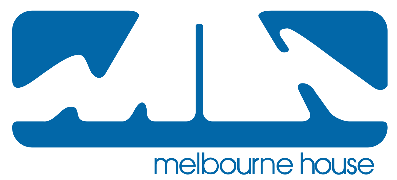 Tallon Lee Britt